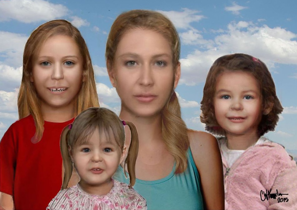 four unidentified murder victims discovered in 1985 and 2000 at Bear Brook State Park in Allenstown, New Hampshire, United States